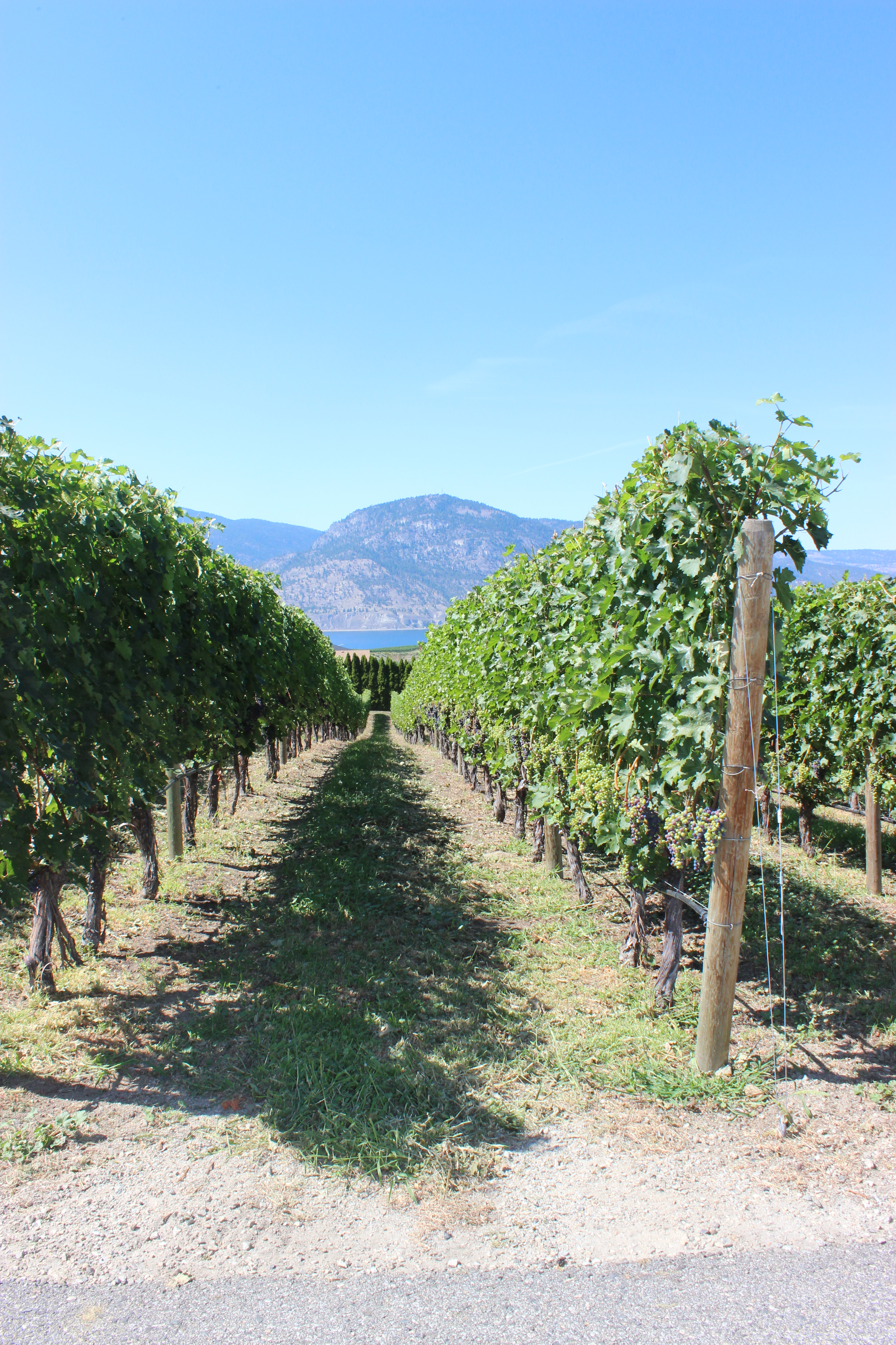 Naramata Bench, Okanogan, BC